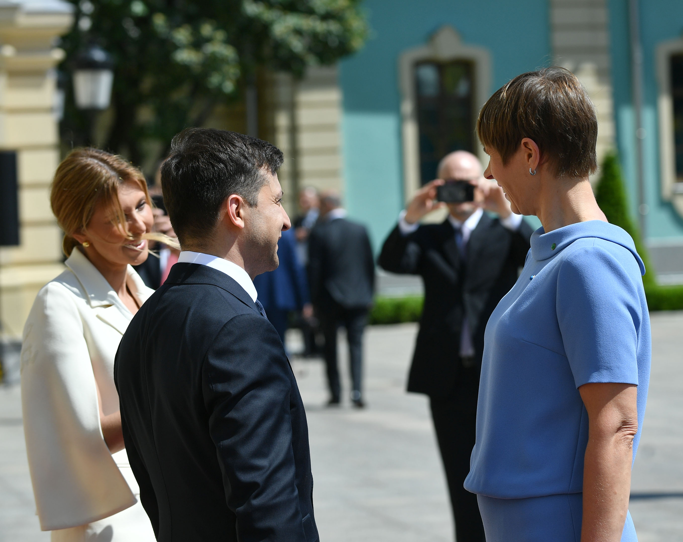 Volodymyr Zelensky presidential inauguration, 20th May 2019